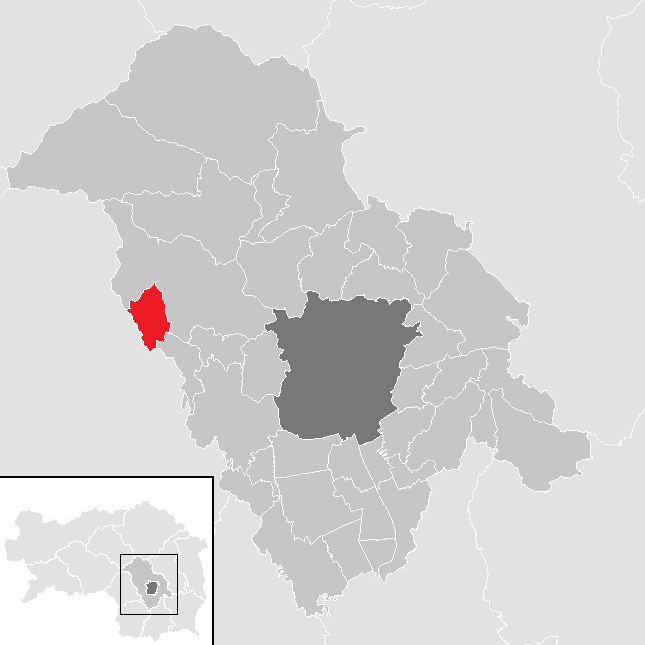 District Graz-Umgebung, Styria